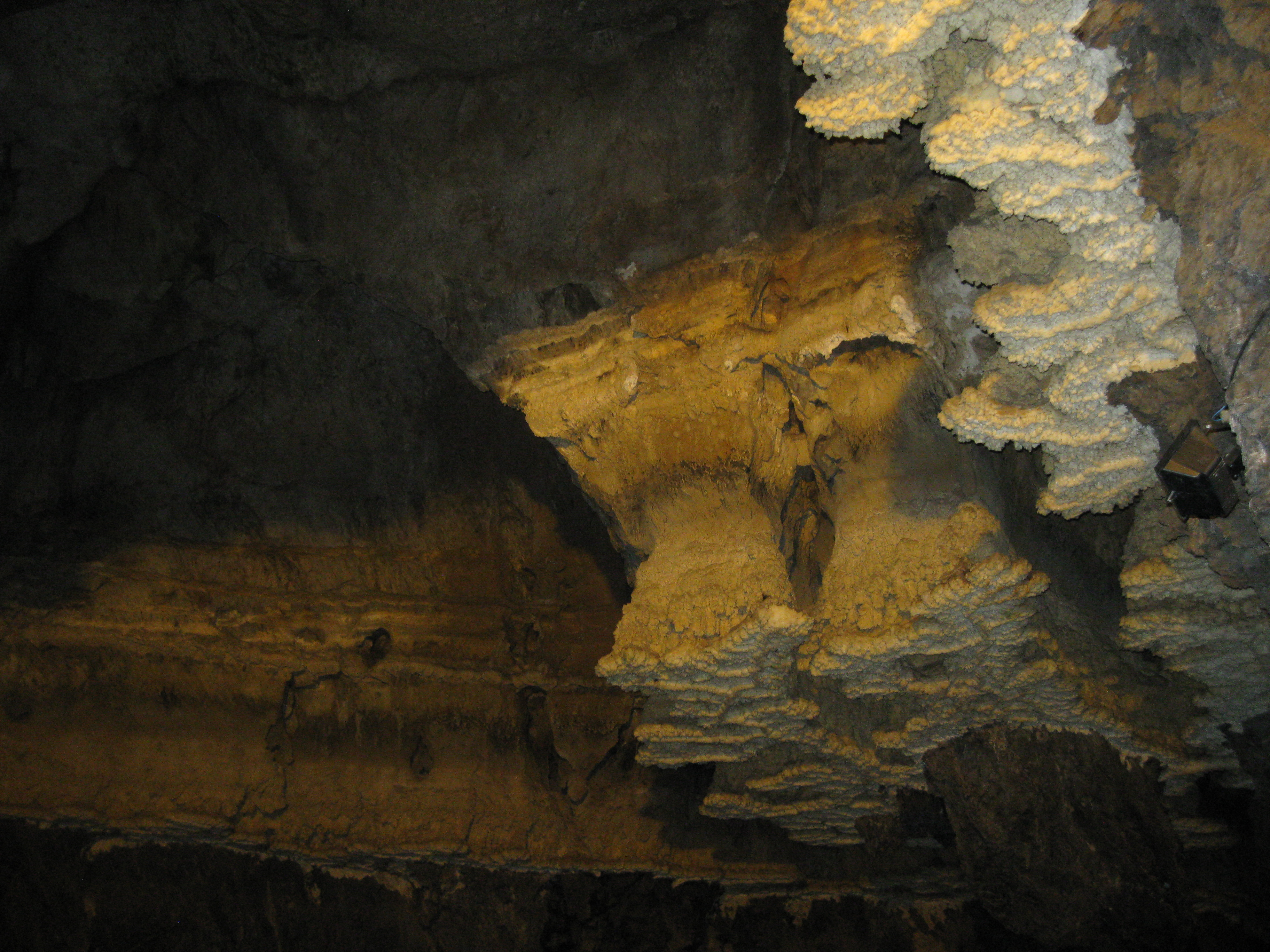 Ali-Sadr Cave, Hamedan Province, Iran